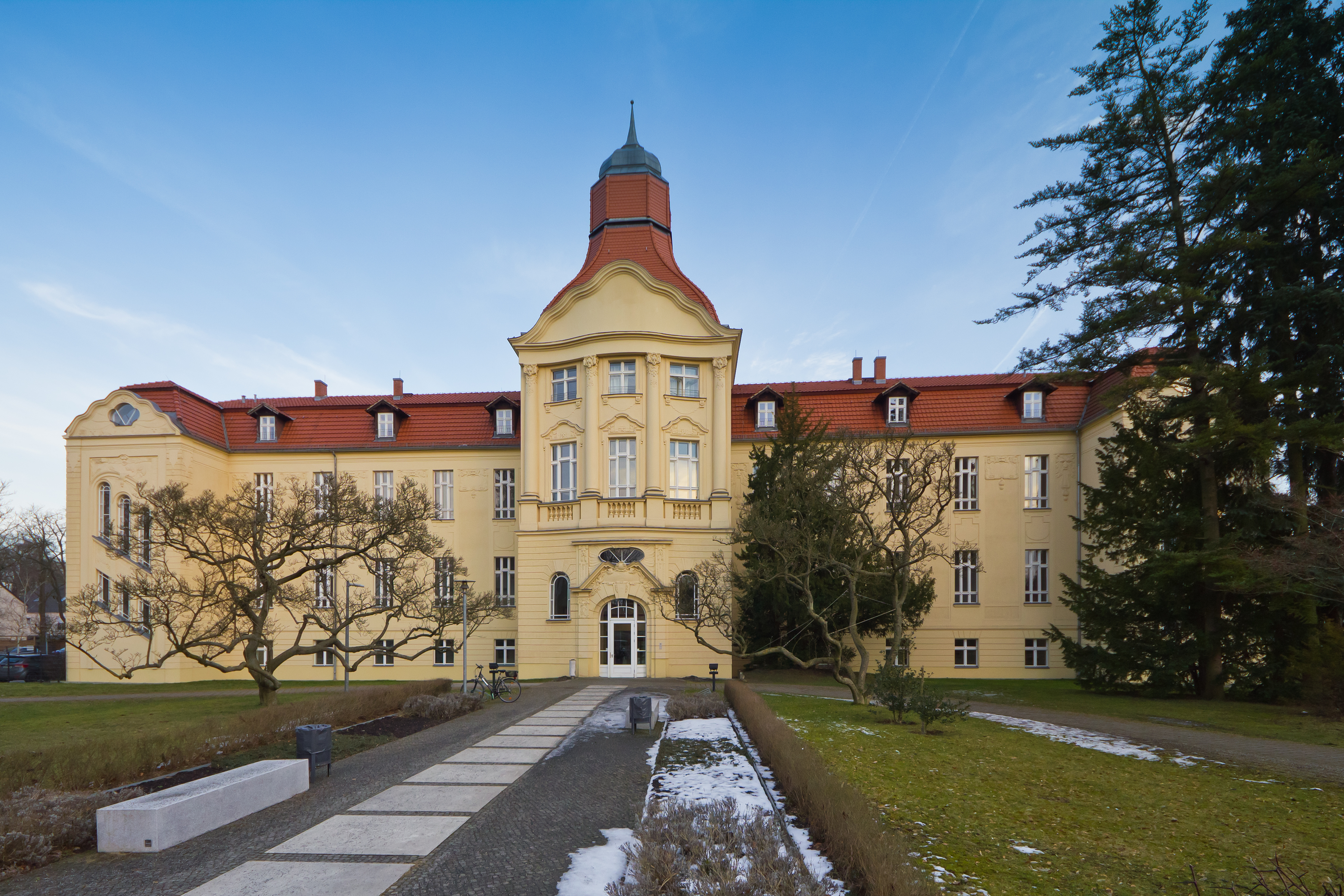 The former Rittberg Hospital in Berlin-Lichterfelde